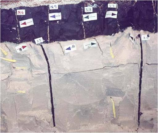 Excavation of a centrifuge model showing relative movement of various soil layers caused by simulated earthquake shaking and liquefaction